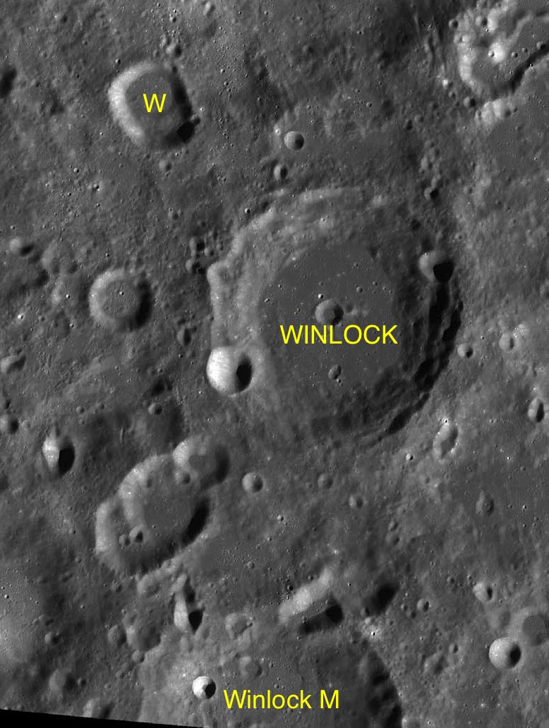 Part of the chart LAC-36 used for the presentation